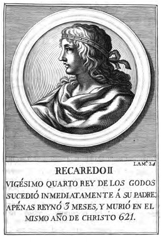 A poster of RECAREDO II, Visigoth king, n°24 in the chronological order of the book digitalized by Google since the bookshop in the University of Oxford.